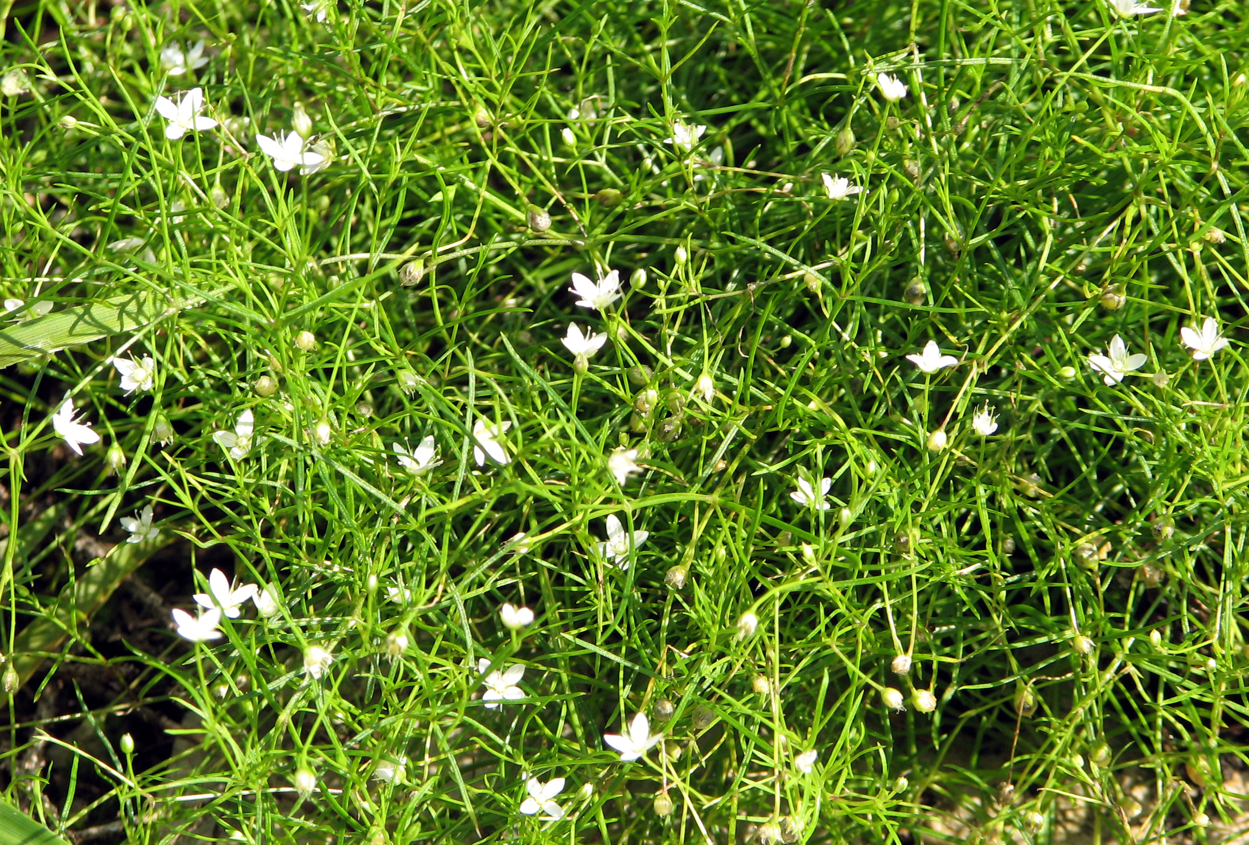 Moehringia muscosa, Almtal (600m), Upper Austria, Austria